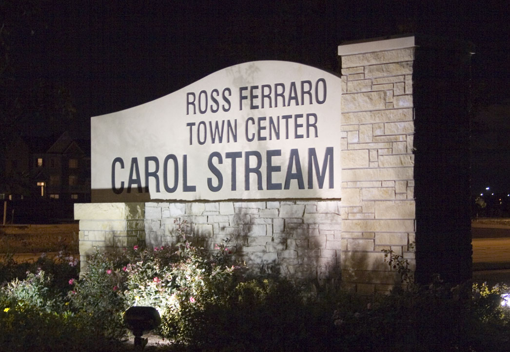 Carol Stream Town Center, 2006. Photo by Tim Yocum.